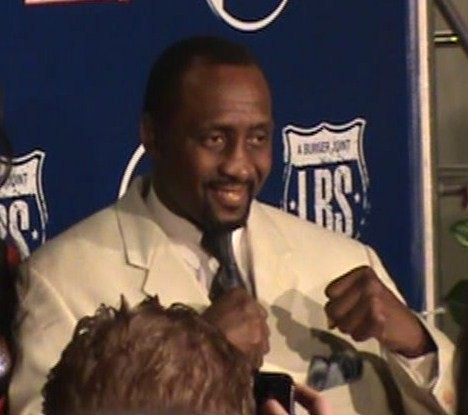 African American boxer Thomas Hearns